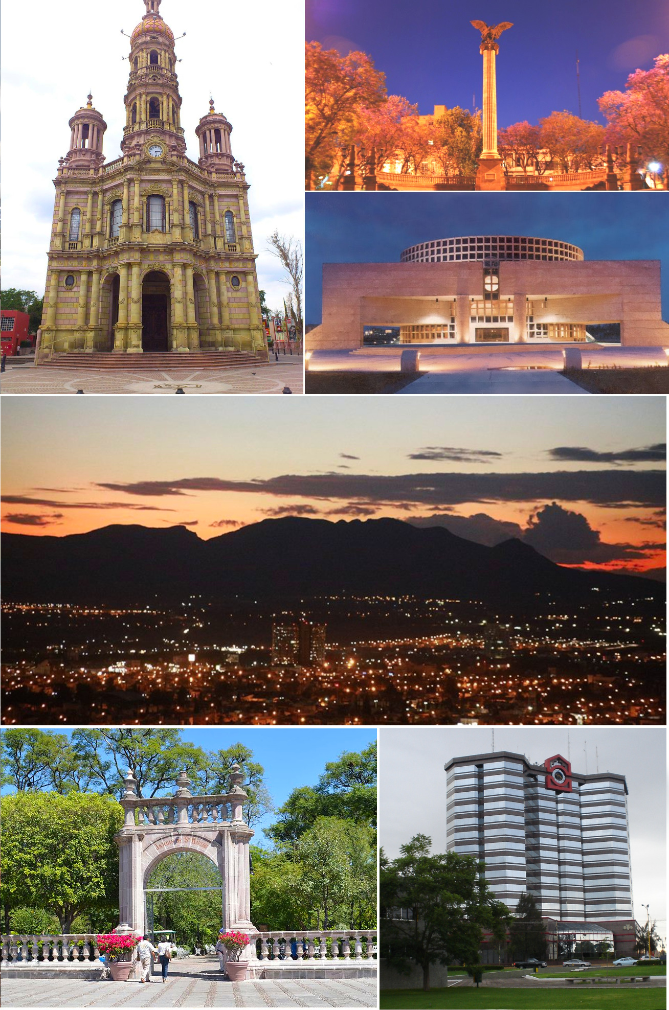 Clockwise from top: San Antonio church, La Exedra, Teatro Aguascalientes, Panorámica Cerro del Muerto, Jardín de San Marcos, Torre Plaza Bosques.